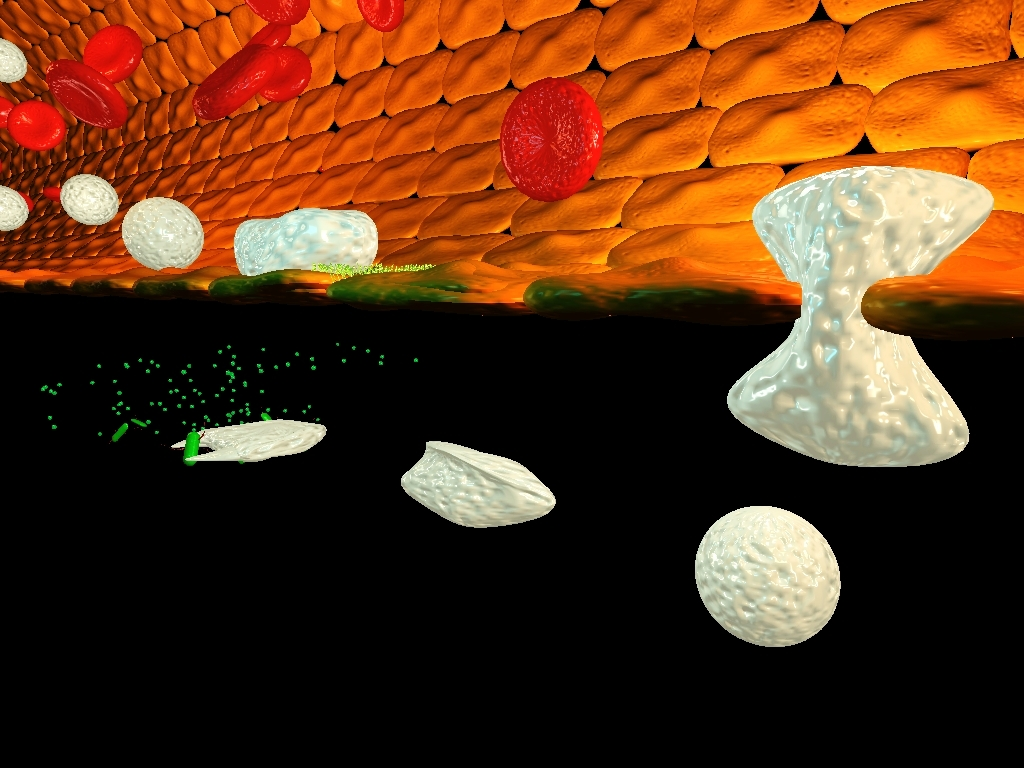 Neutrophil Transendothelial migration, chemokinesis, and phagocytosis of bacteria